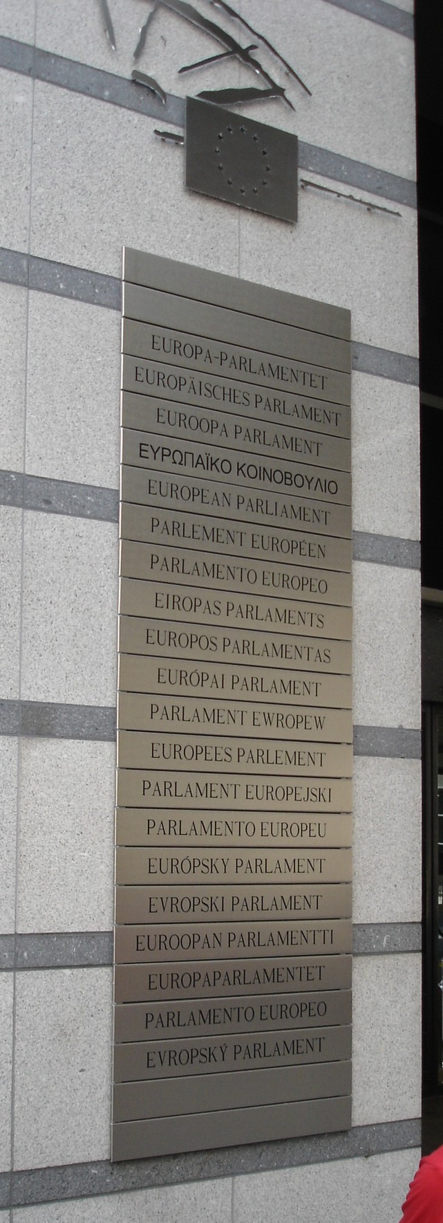 Here's the list of languages as they appear on the sign: Danish German Estonian Greek English French Italian Latvian Lithuanian Hungarian Maltese Dutch Polish Portuguese Slovak Slovenian Finnish Swedish Spanish Czech Note: The list is ordered alphabetically according to the Latin alphabet but using the endonymic name for the language, eg. Greek = Ellinika (transcripted), Hungarian = Magyar, Finnish = Suomi.